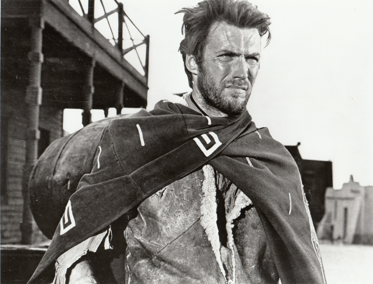 Publicity photo of Clint Eastwood for A Fistful of Dollars (Per un pugno di dollari)